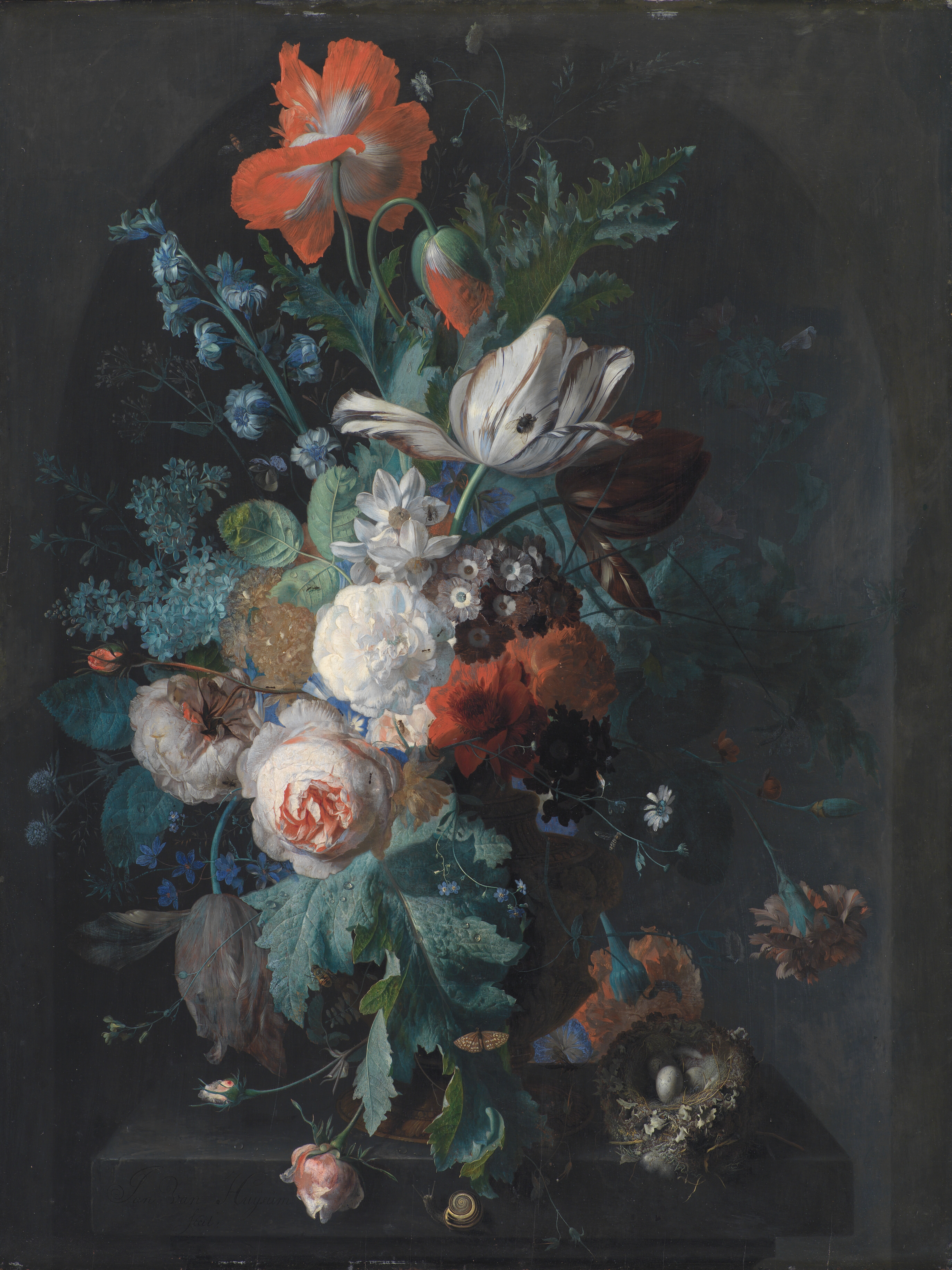 known in norwegian as Jan van Huysums Blomsterstykke and as the inspiration to national bard Henrik Wergelands poem by the same name